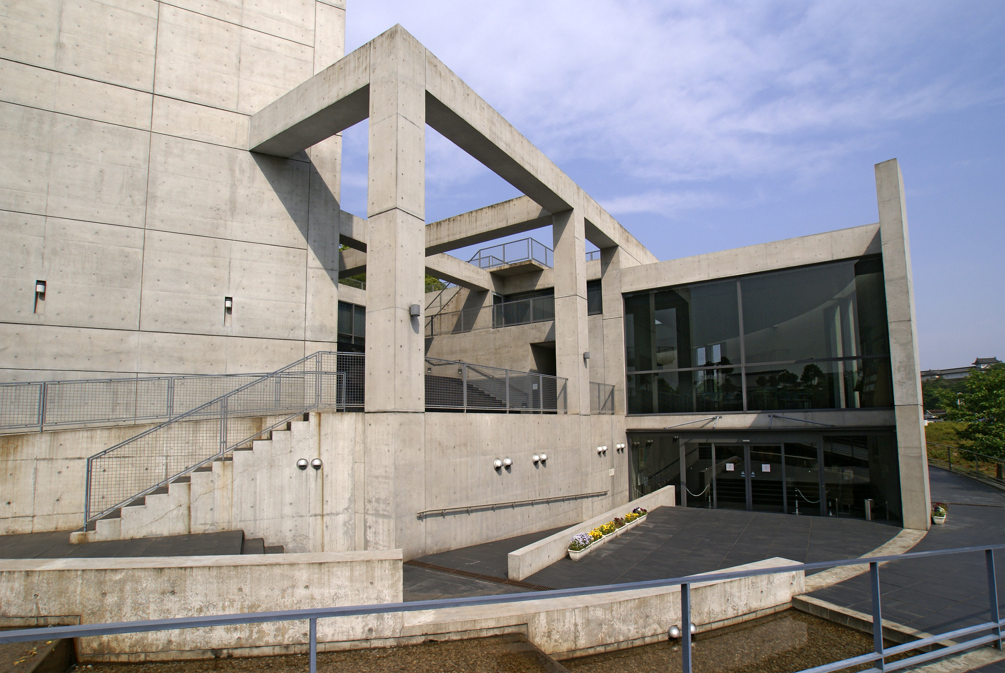 Himeji City Museum of Literature in Himeji, Hyogo prefecture, Japan